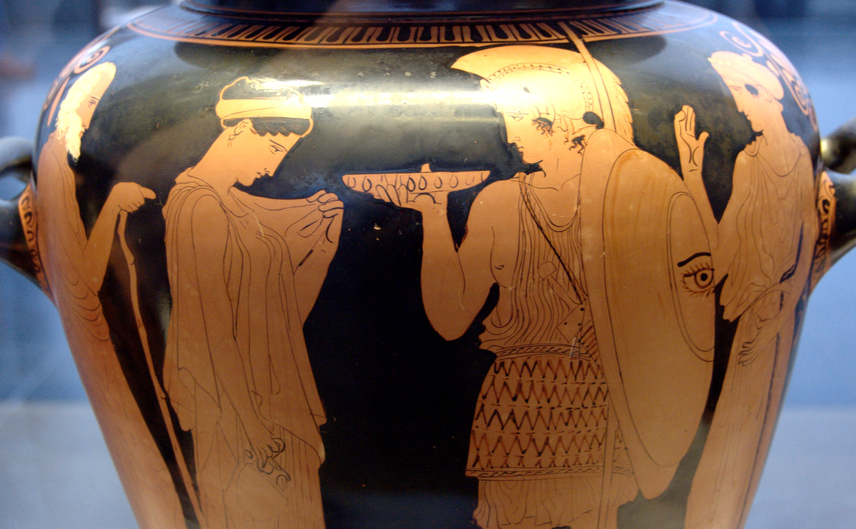 Warrior leaving home. Side A of an Attic red-figure stamnos, 440–430 BC. From Vulci.